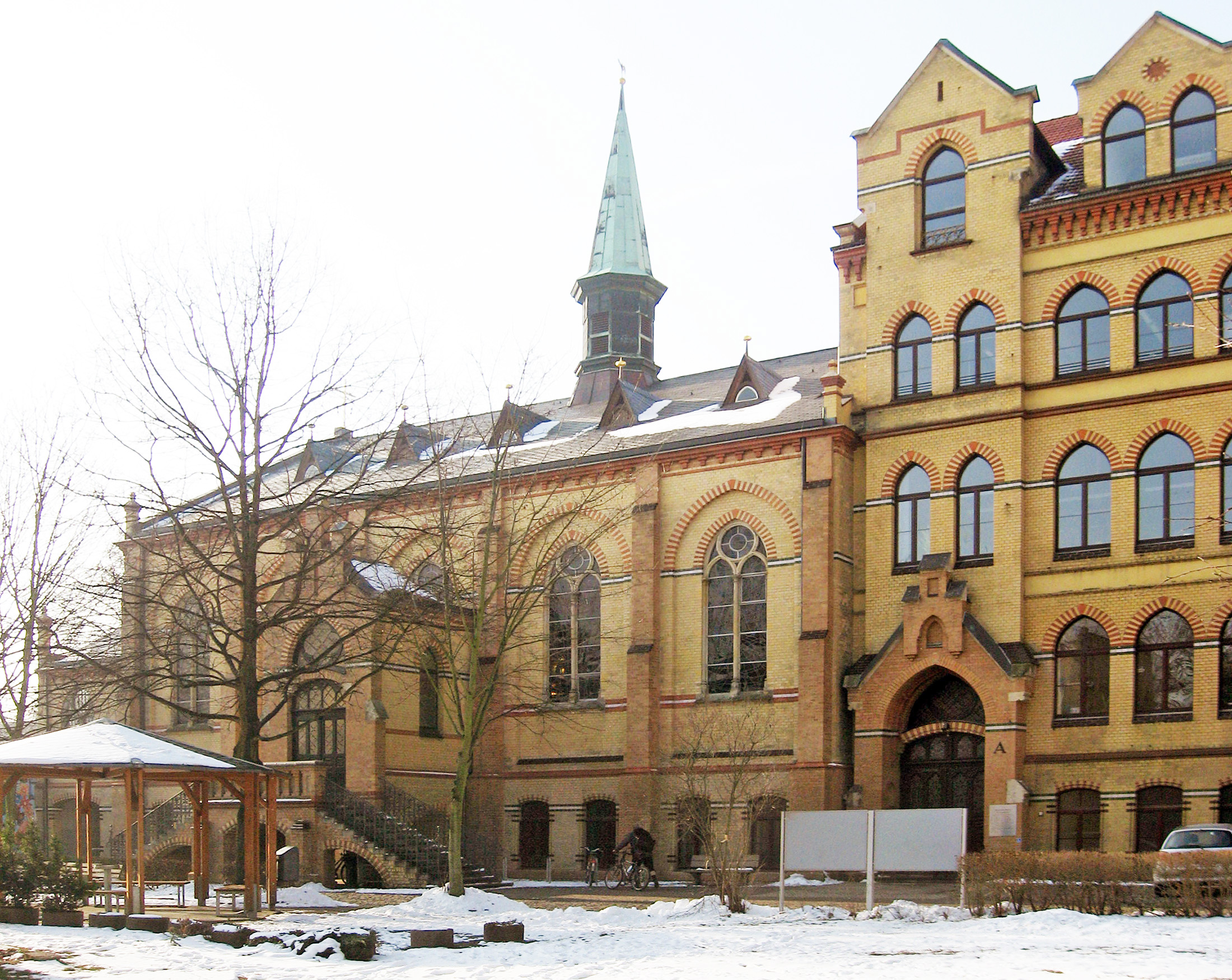 Roman Catholic St. Lawrence's Church in Leipzig-Reudnitz, Witzgallstrasse 20/22